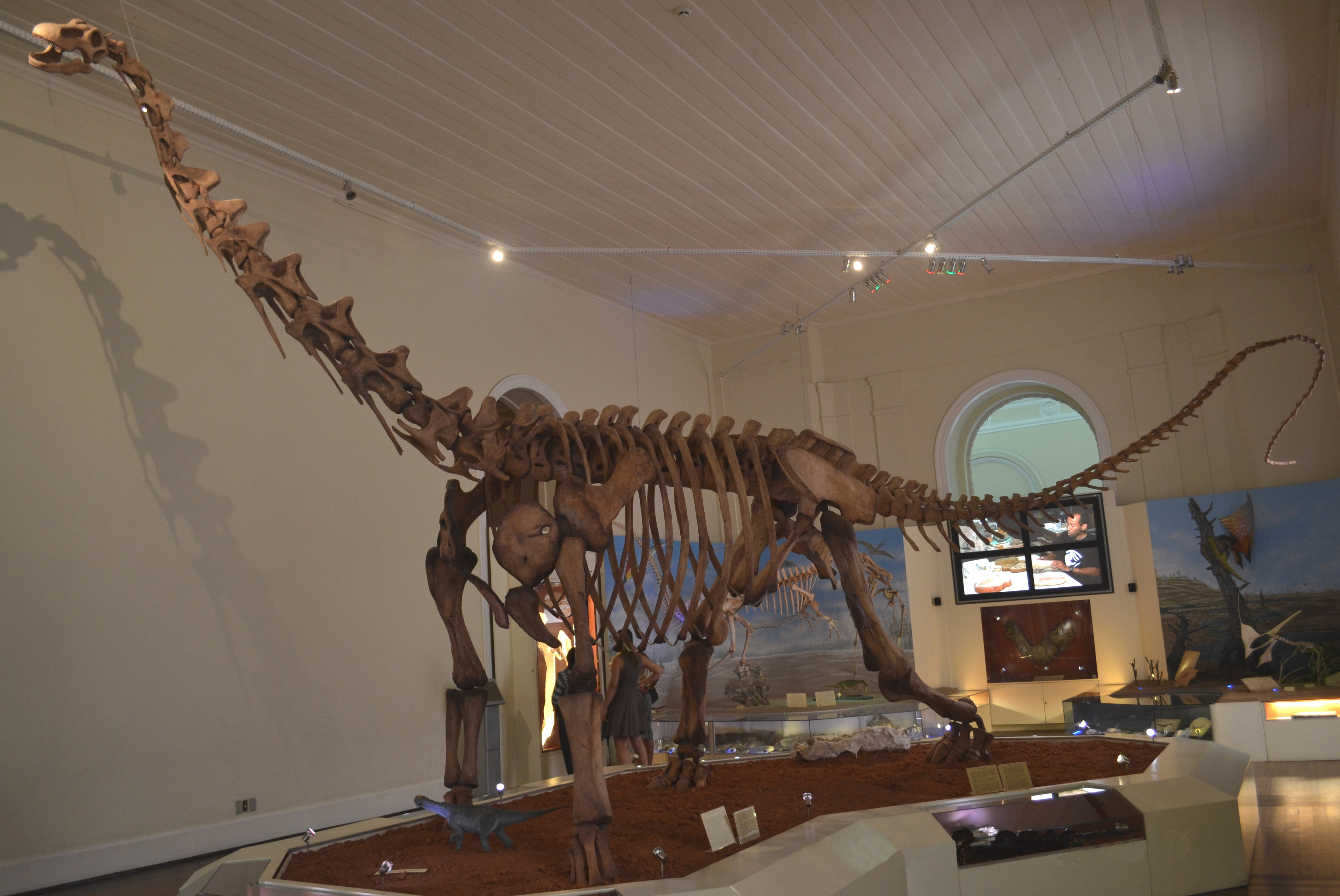 Replica of the skeleton of the Maxakalisaurus topai dinosaur exhibited at the National Museum of the Federal University of Rio de Janeiro, Quinta da Boa Vista, Rio de Janeiro